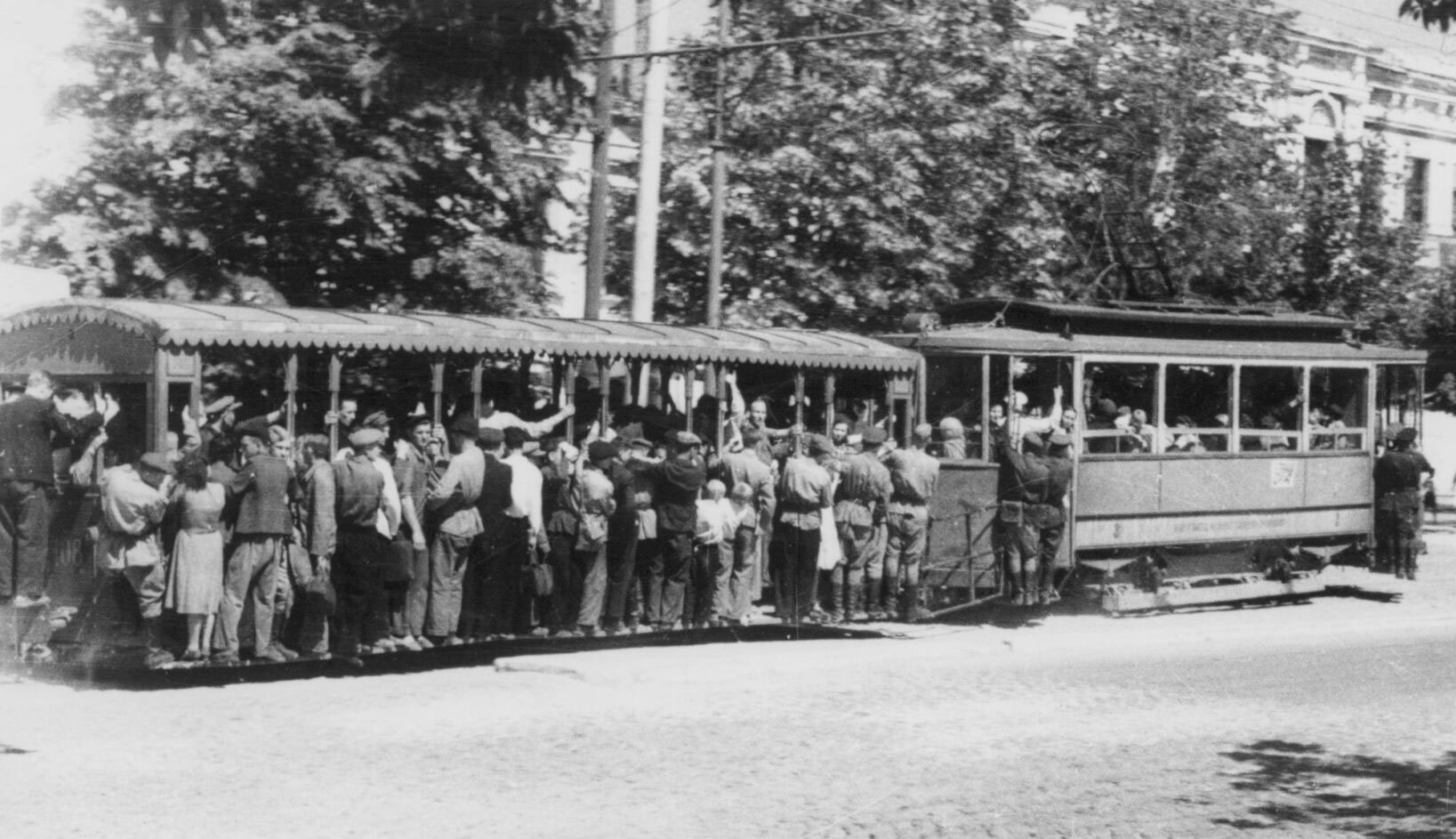 A crowded tram at Lenin street in Kishinev, Moldova.